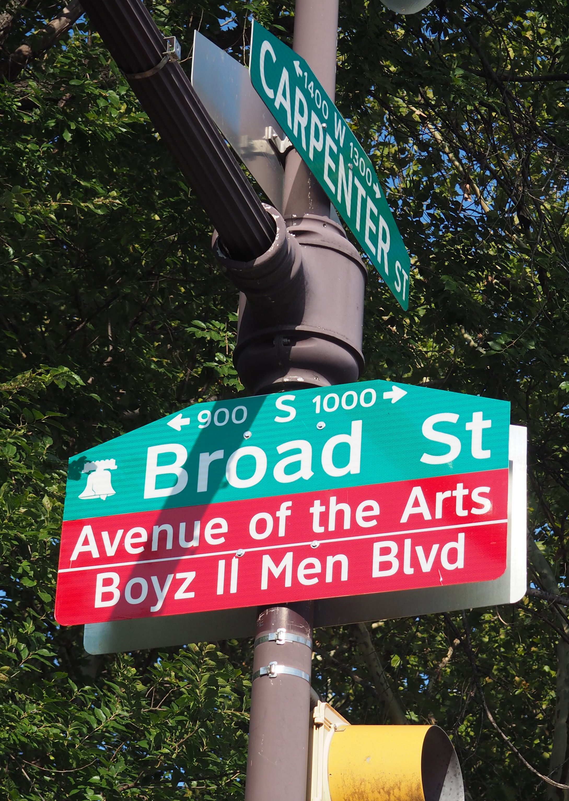 Boyz II Men Blvd Broad Street Philadelphia